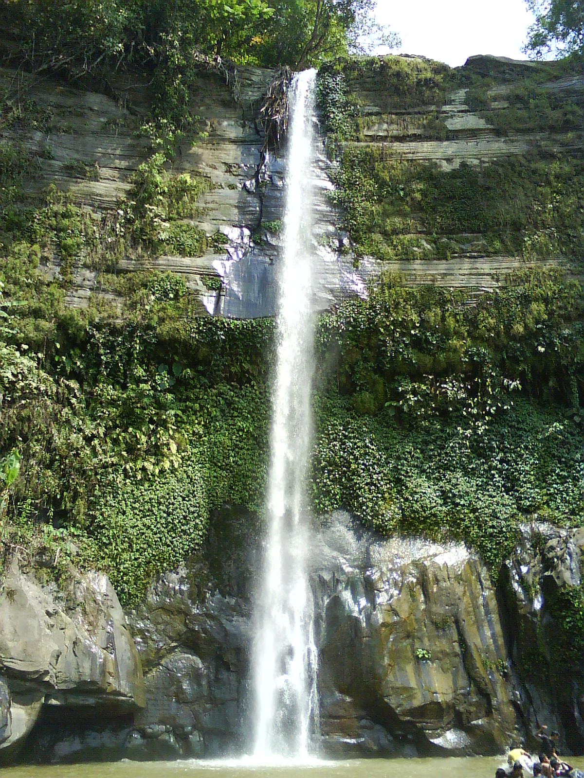 Madhabkunda Water-Fall, Maulvibazar, Bangladesh